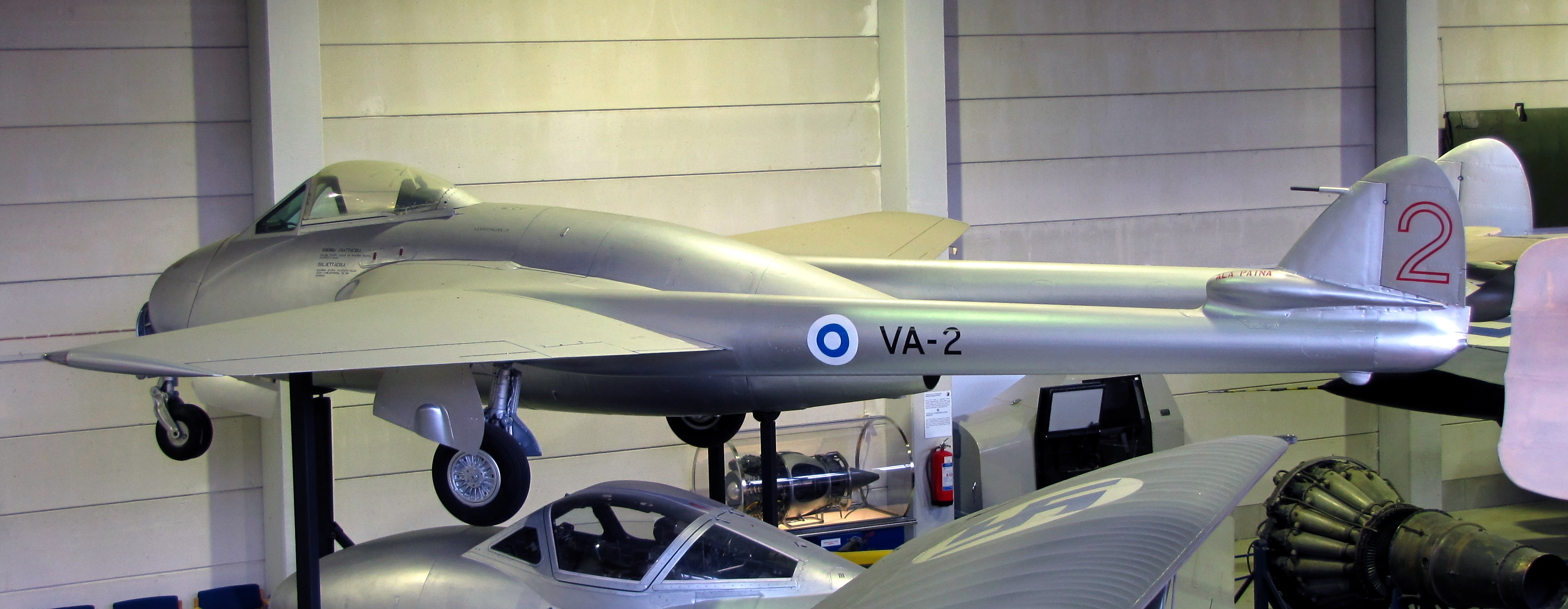 De Havilland Vampire Mk.52 VA-2 in Finnish Aviation Museum. Below is a De Havilland Vampire Trainer T.55 VT-9.